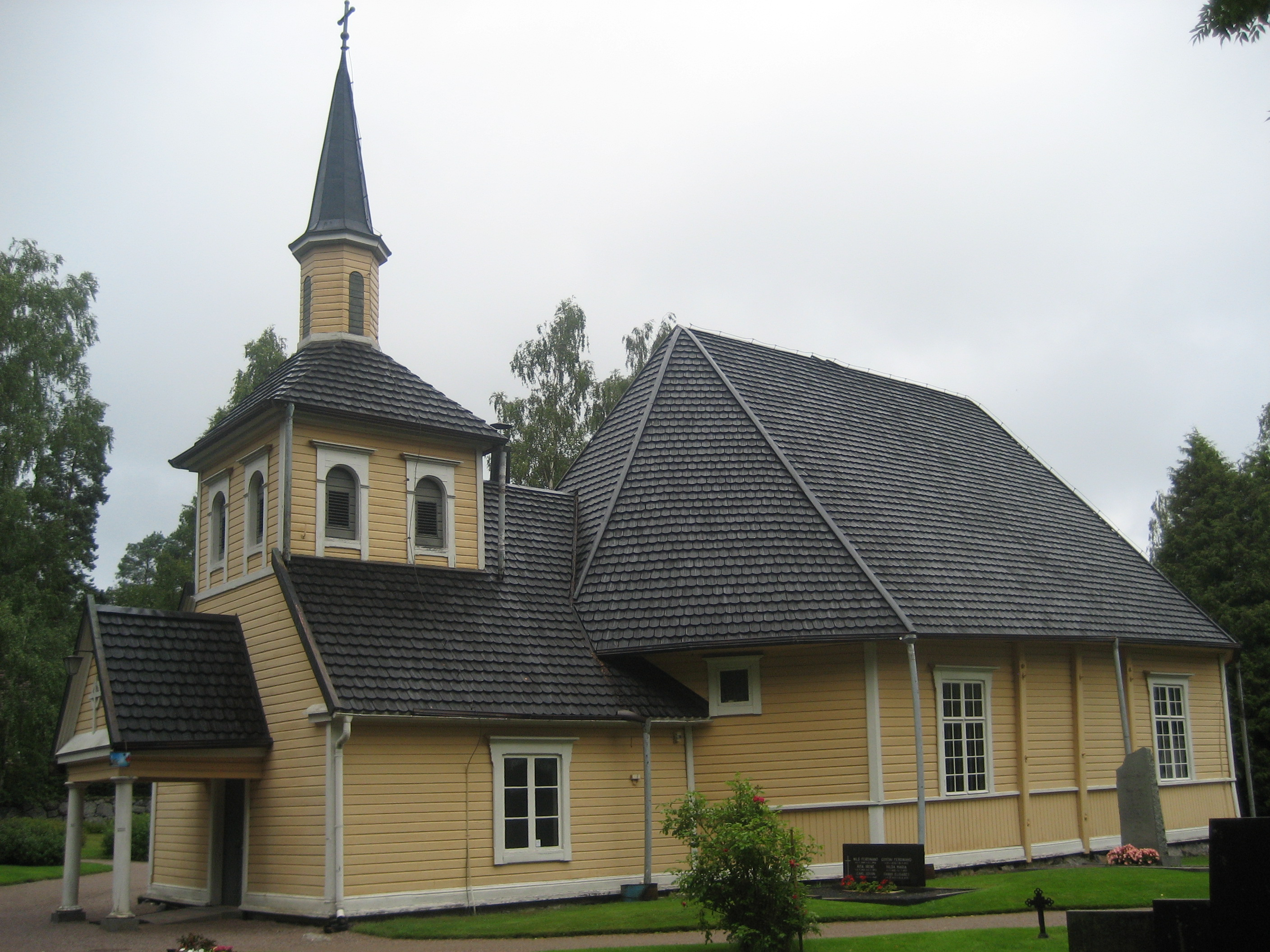 Östersundom Church, Helsinki, Finland